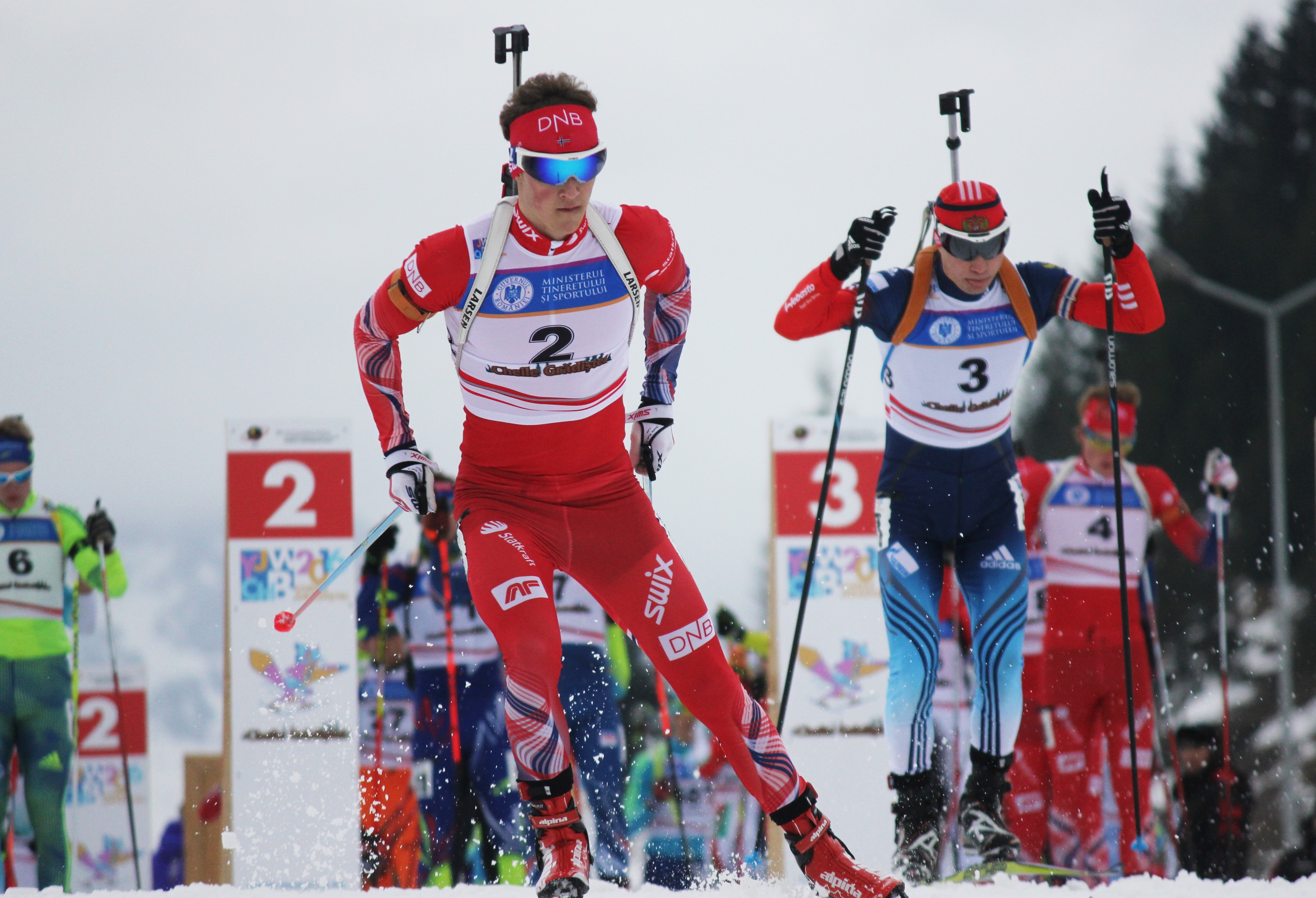 Endre Strømsheim (2) and Viacheslav Maleev (3) in the pursuit at the Biathlon Junior World Championships 2016.